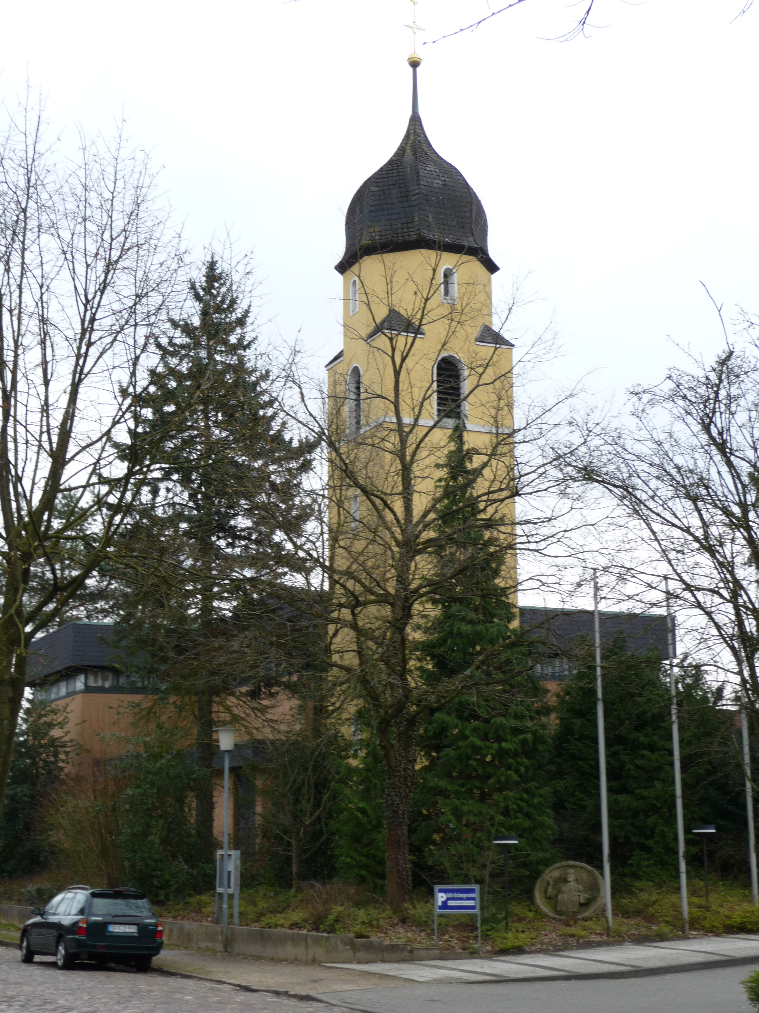 Saint-Mary-Church in Soltau